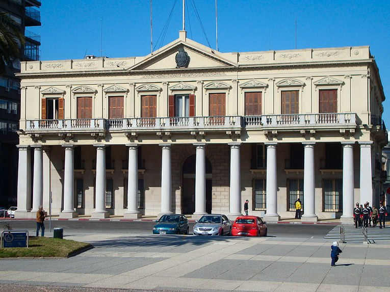 Palacio Estevez in Plaza Indepencia, Montevideo, Uruguay